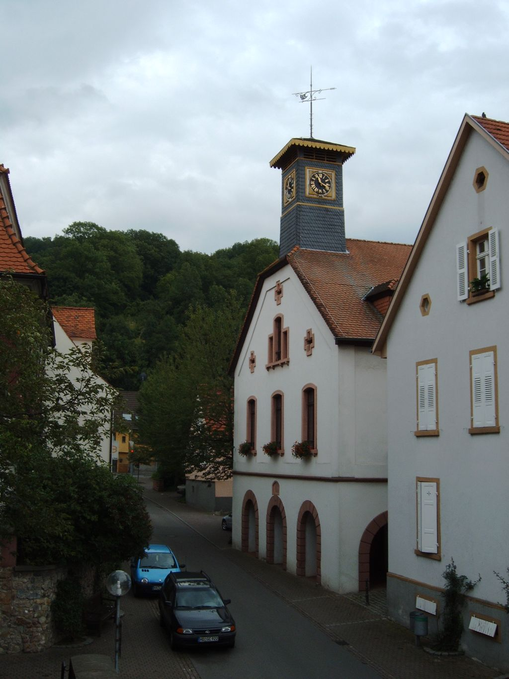 Former town hall in Hemsbach